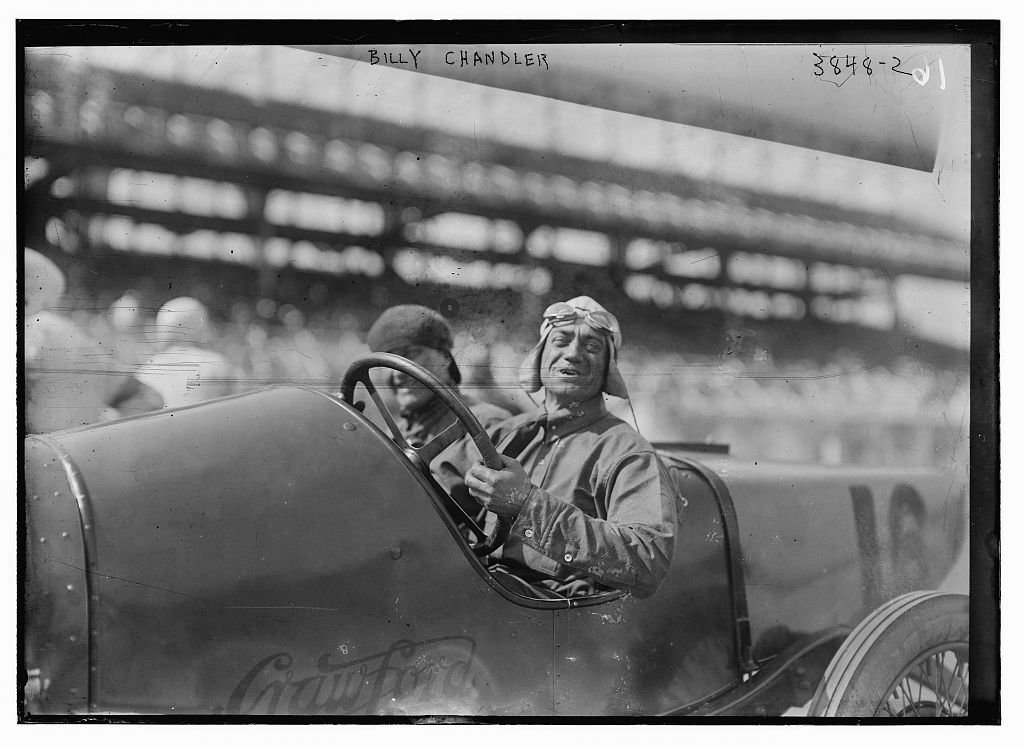 William Chandler (racing driver) on May 13, 1916 at the Sheepshead Bay Speedway